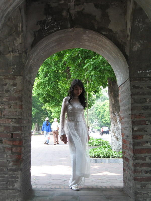 A young girl in áo dài.